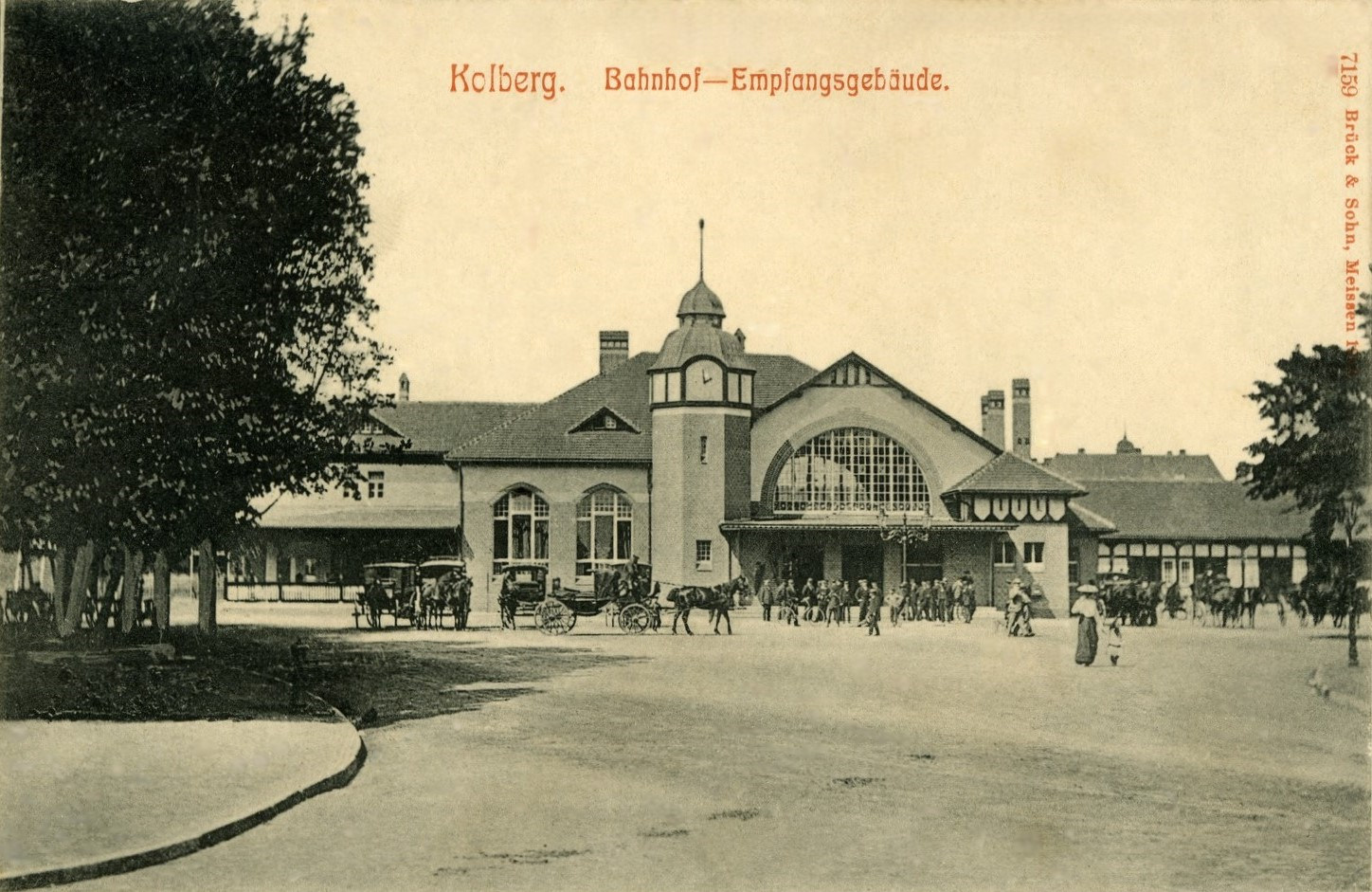 This postcard is from publisher Brück & Sohn in Meißen ( This postcard has a unique number 07159 and is available in a higher resolution at the publisher. This images was uploaded in a cooperation project between Wikipedians and the publisher.